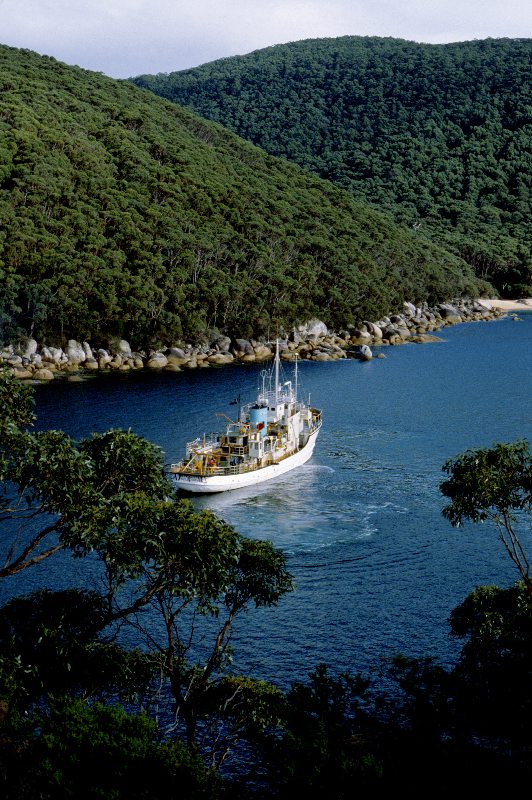 For over 40 years, the 42m war-time tug, Sprightly put to sea on a variety of important scientific missions. The Sprightly was originally a salvage vessel in the North Atlantic before becoming a CSIRO reseach vessel. The Sprightly was retired in 1985 and replaced by CSIRO's new oceanographic research vesel, the Franklin.